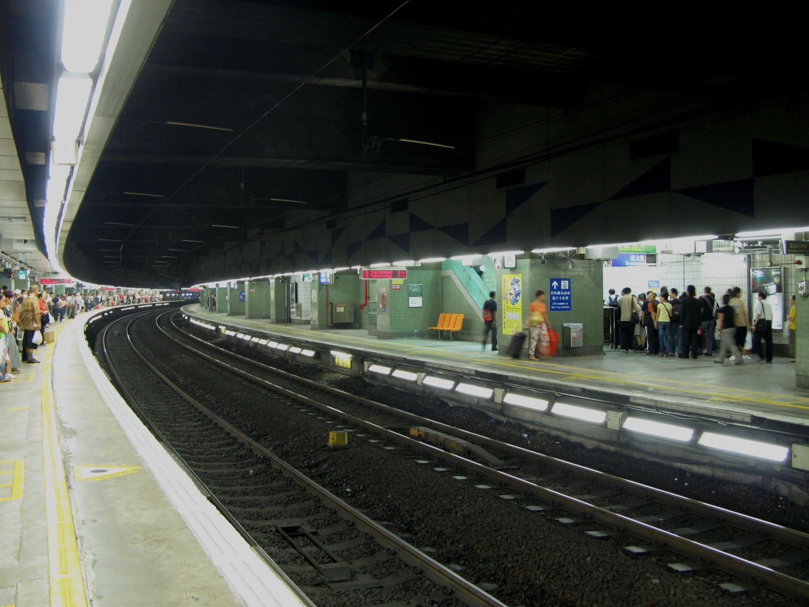 HK KCR Mong Kok Station Platform